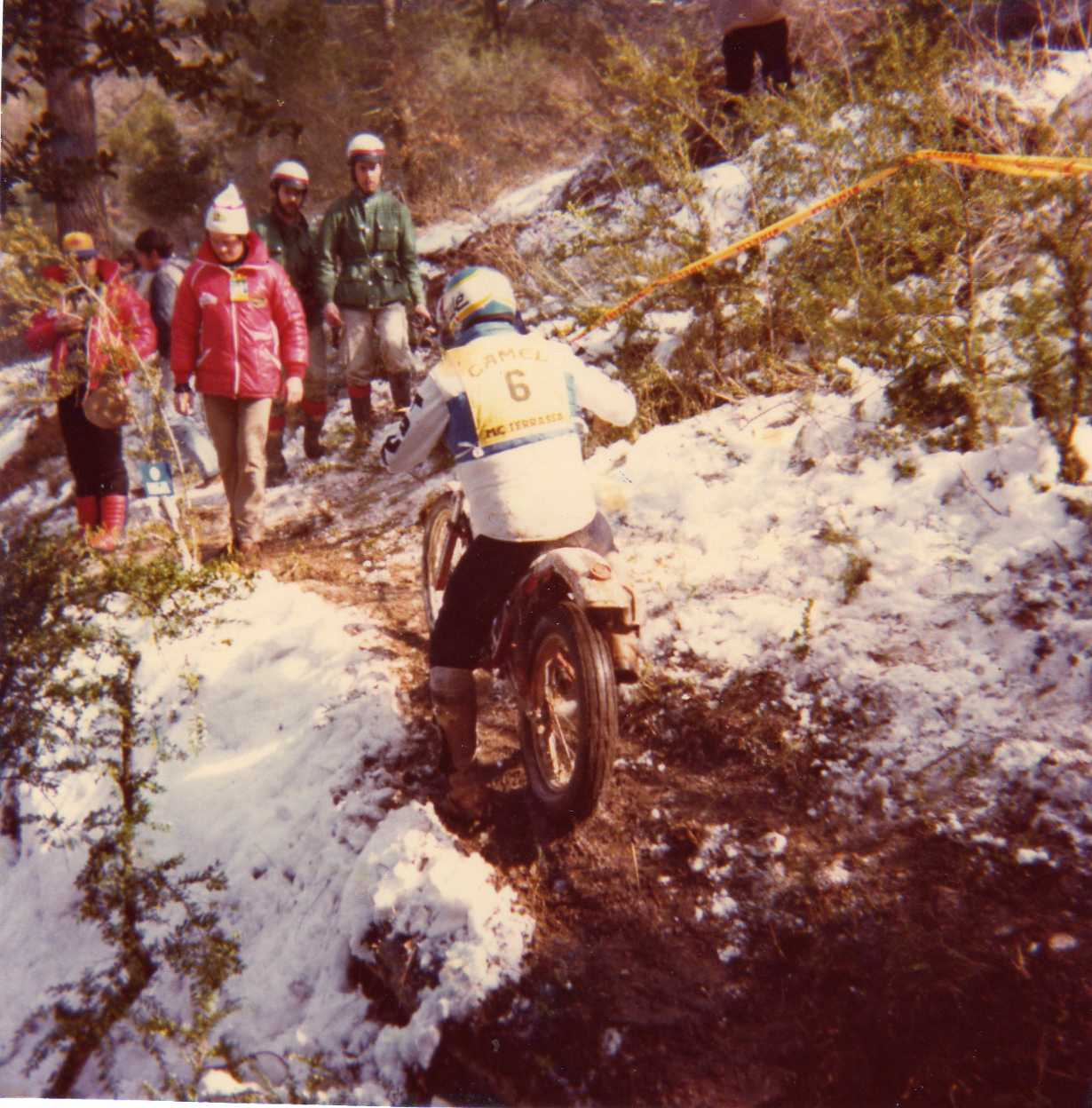 Manuel Soler riding his Montesa Cota at XV "Trial de Sant Llorenç" in Mura (Catalonia) on February 22, 1981. It was the first race of the Trial World Championship. He won the race.